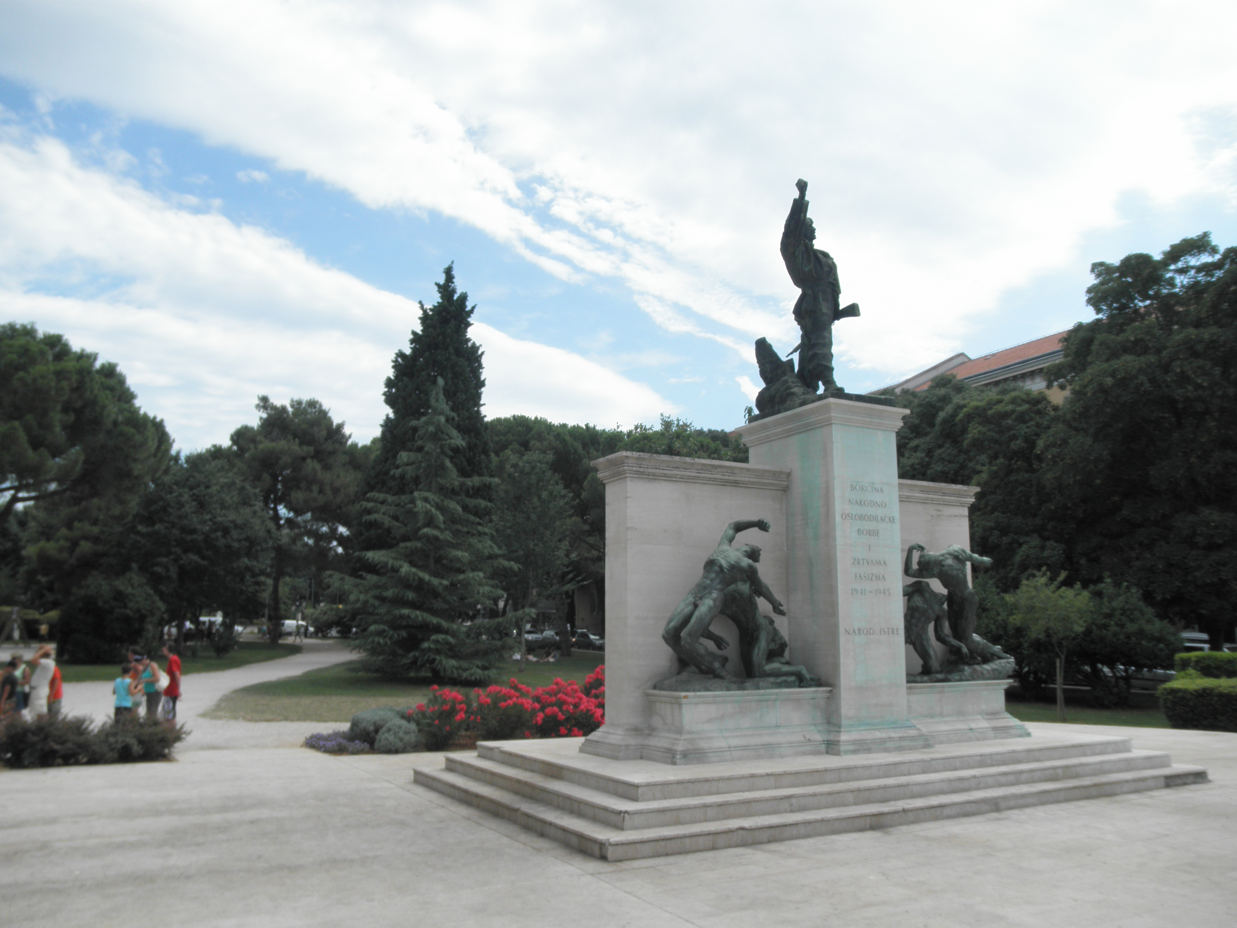 Memorial about the antifascist resistance of 1941-1944 Pula (Istria)